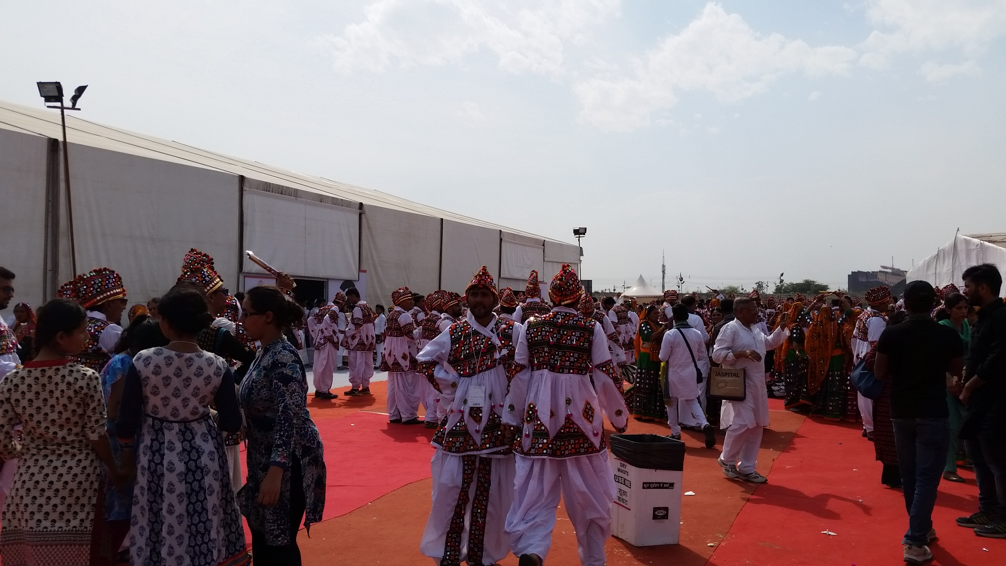 Rajasthani Artists' green room at the World Cultural Festival 2016 held in New Delhi.